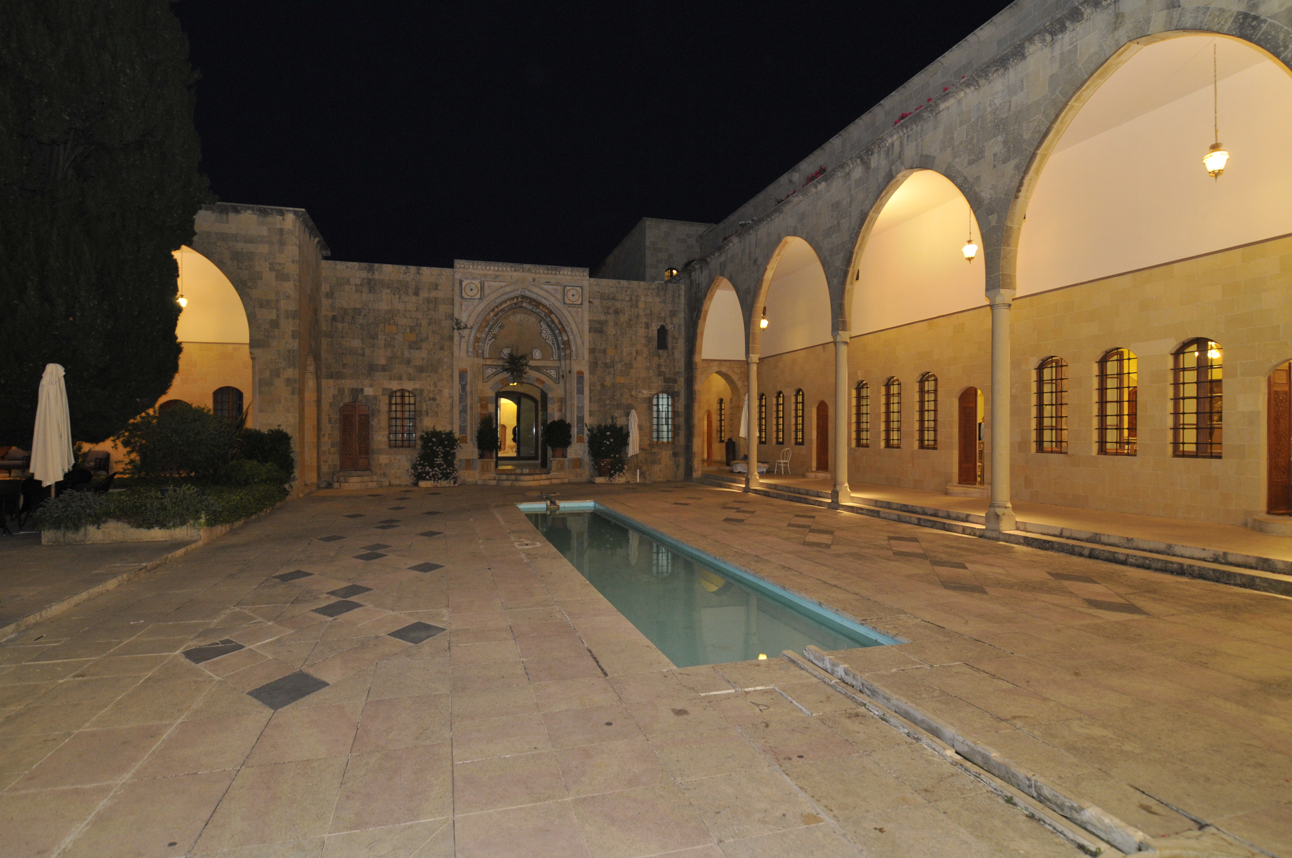 this is the court of the hotel. on the left (not shown) is an open air restaurant. That used to be the Mir Amine Palace in the 19th century. it is next to Amine Palace in Beiteddine, Shouf. it was renovated and turned into a 5 stars hotel back in 1969.